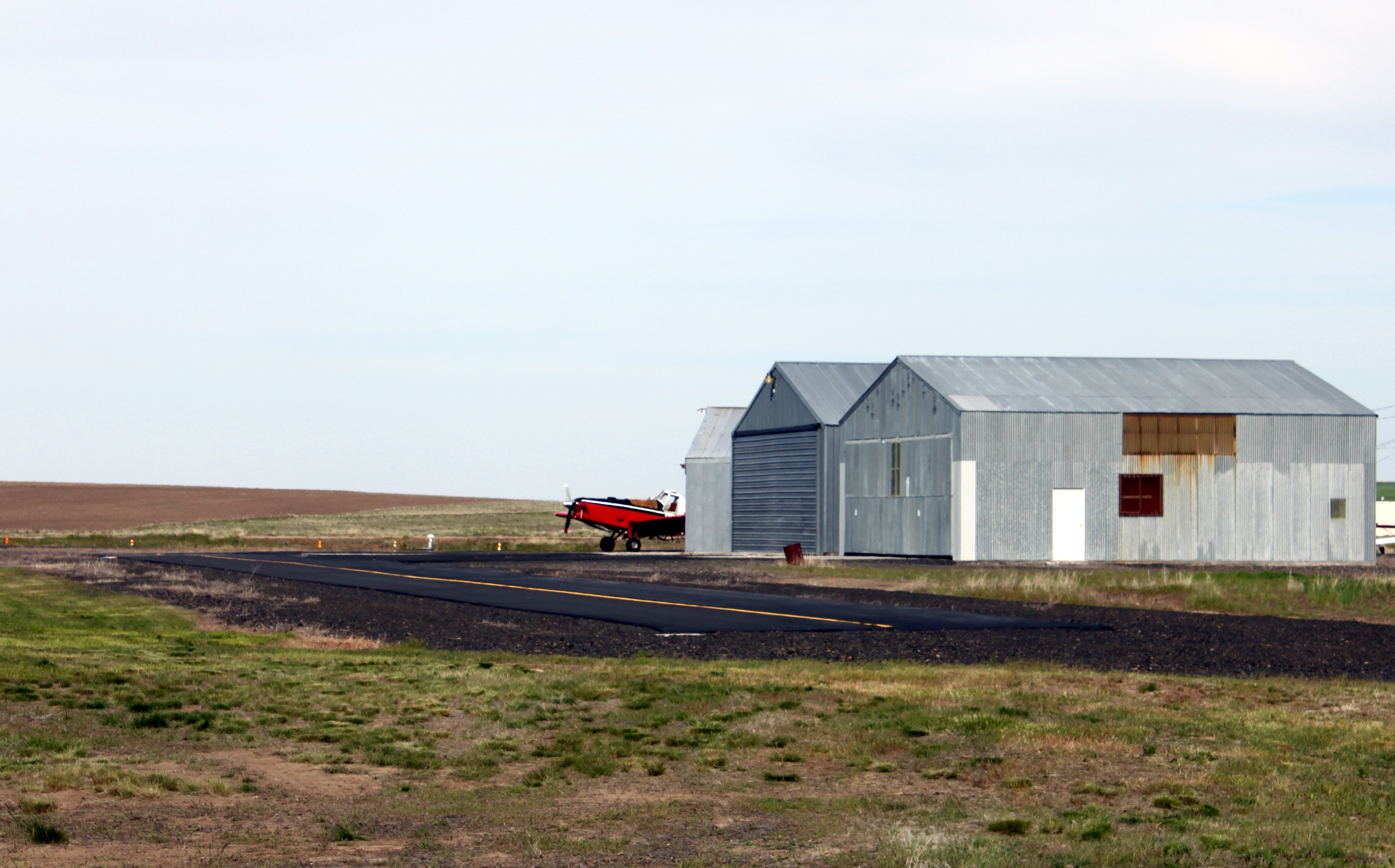 Condon State Airport near Condon, Oregon.